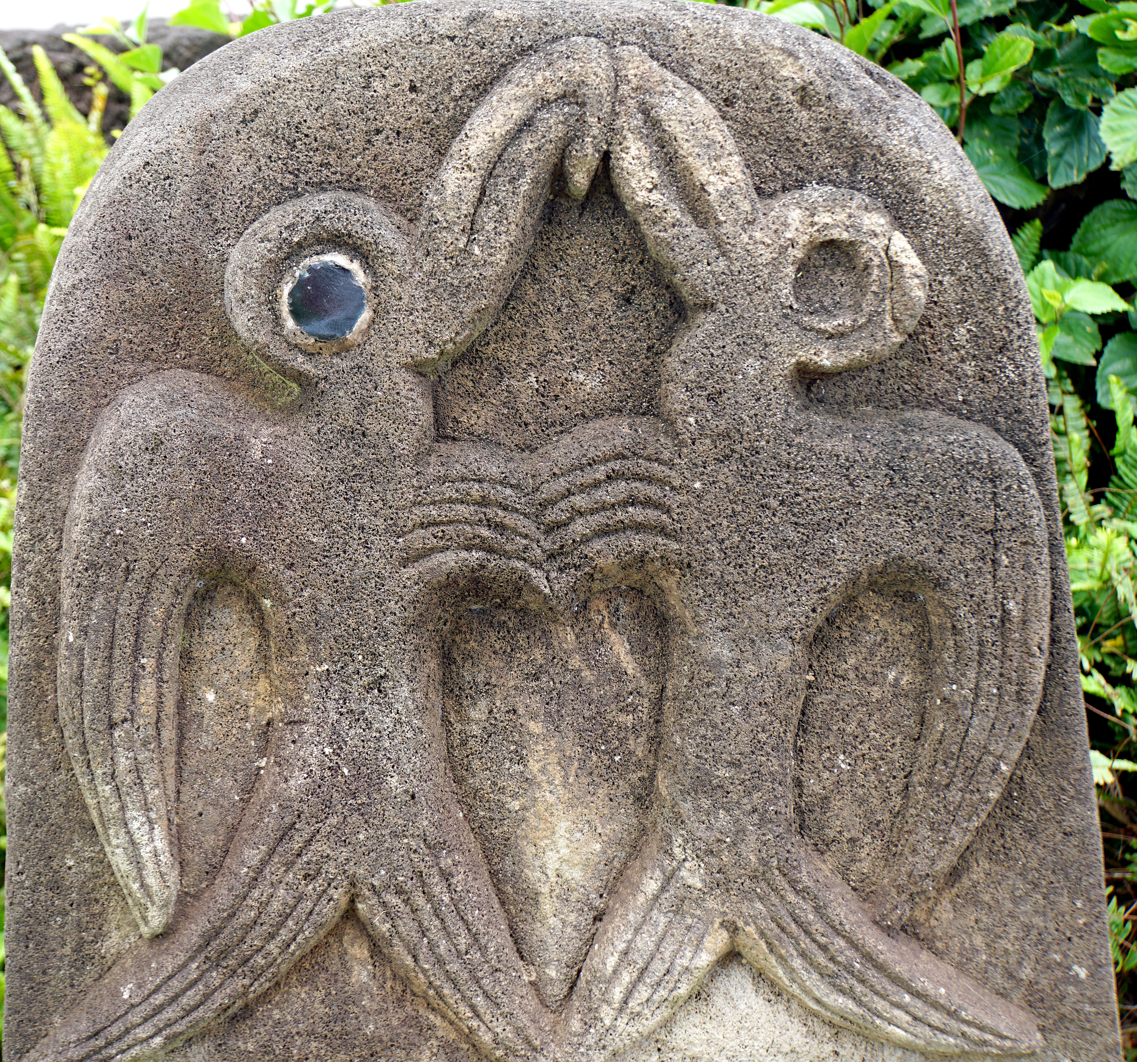 PLEASE, NO invitations or self promotions, THEY WILL BE DELETED. My photos are FREE to use, just give me credit and it would be nice if you let me know, thanks. The last picture shows, Manu Piri, symbolizes love and union between two people. It shows two manutara birds that join their beaks, while they merge two wings and a tail. The slogan of the current administration is “Rapa Nui hai mahatu”, that means “Rapa Nui with love”.